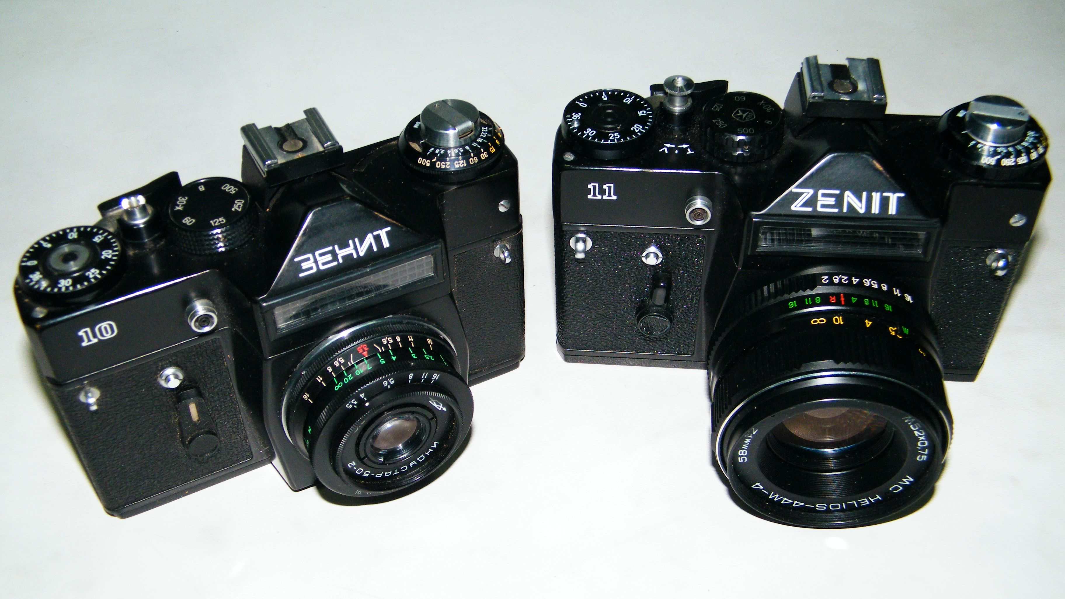 Зенит-10 и Зенит-11